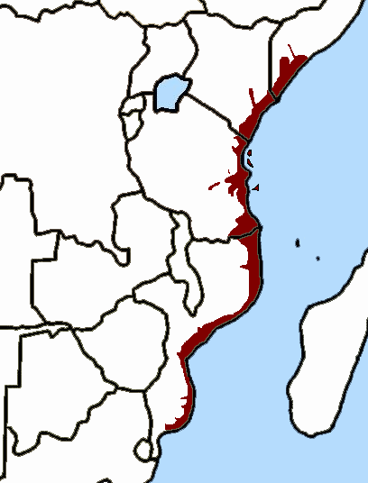 Coastal Forests of Eastern Africa map